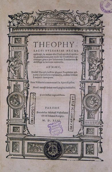 Title page of a 16th-century Latin translation of the biblical commentaries of Theophylact of Bulgaria (1078-1107). "Theophylacti Bulgariae Archiepiscopi, in omnes divi Pauli apostoli epistolas enarrationes, iam recens ex vetustissimo archetypo græco per Iohannem Lonicerum fidelissime in latinum conversæ. Ad haec, Eiusdem Theophylacti in aliquot Prophetas minores compendiaria explanatio, eodem Iohanne Lonicero interprete. […] Parisiis, Excudebat Michael Vascosanus sibi & Iohanni Roigny, M.D.XLII" "Commentaries on all epistles of the Holy Apostle Paul, by Theophylact, Archbishop of Bulgaria, newly translated into Latin from the oldest Greek archetype by Johannes Lonicer. In addition, by the same Theophylact, a comprehensive explanation of various minor prophets, translated by the same Johannes Lonicer. Paris, printed by Michael Vascosanus for himself and Jean Roigny, 1542."